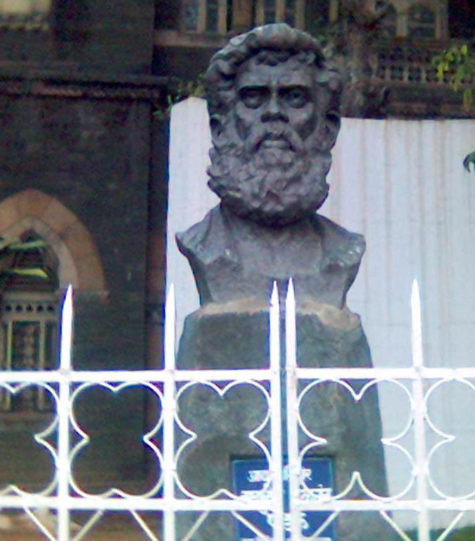 Bust of Vasudev Balwant Phadke near Metro Cinema in Mumbai. Pic taken by me, Nichalp on 14-Mar-2006